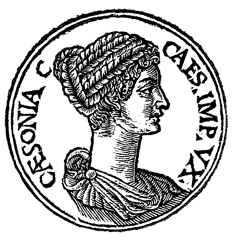 Milonia Caesonia was the fourth and last wife of the Roman Emperor Caligula.